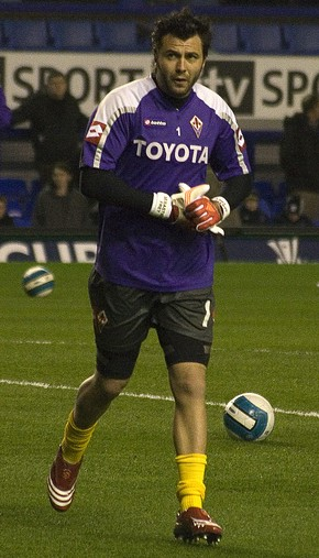 Sébastien Frey Fiorentina